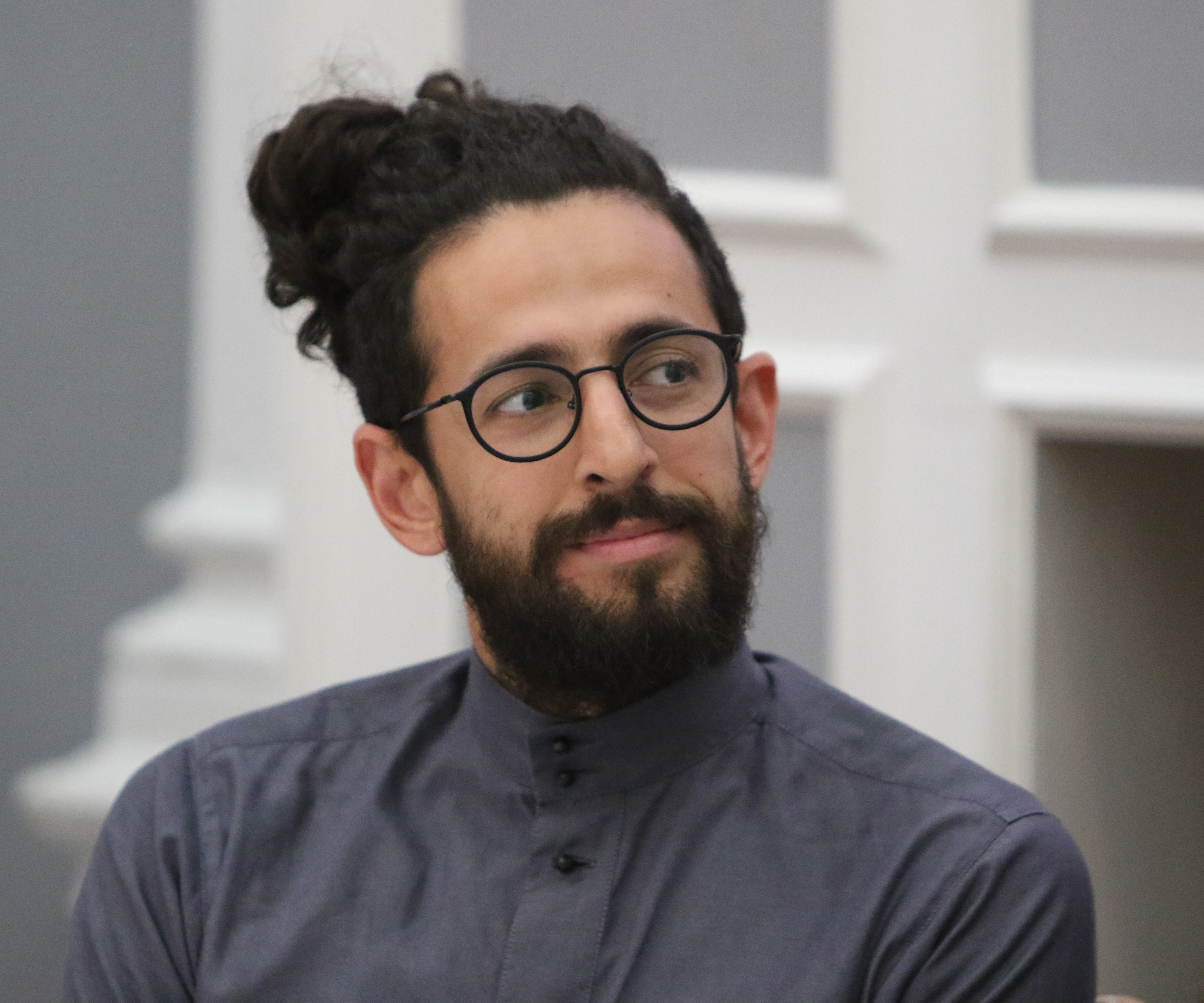 Saudi Cinema Now: a conversation with Hisham Fageeh and Fatima Al-Banawi event at The Institute of Contemporary Arts in London, 22 February 2018.